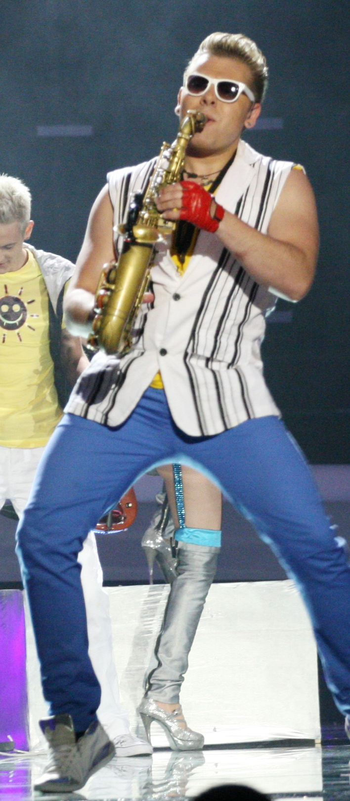 Sergey Stepanov, saxophonist of the band SunStroke Project, during the Eurovision 2010 in Oslo (Norway). Also known under the name "Epic Sax Guy".